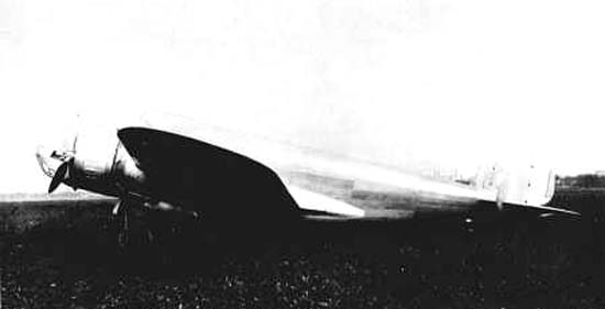 Italian Breda Ba.82 medium bomber prototype